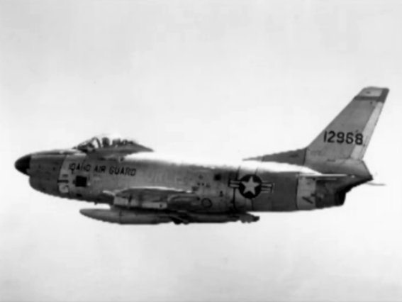 A U.S. Air Force North American F-86L Sabre (s/n 51-2968) from the 190th Fighter-Interceptor Squadron, 124th Fighter Group (Air Defense), Idaho Air National Guard in flight. The 190th FIS flew the F-86L until 1964. The F-86L 51-2968 is today on display at McClellan Air Force Base, California (USA).